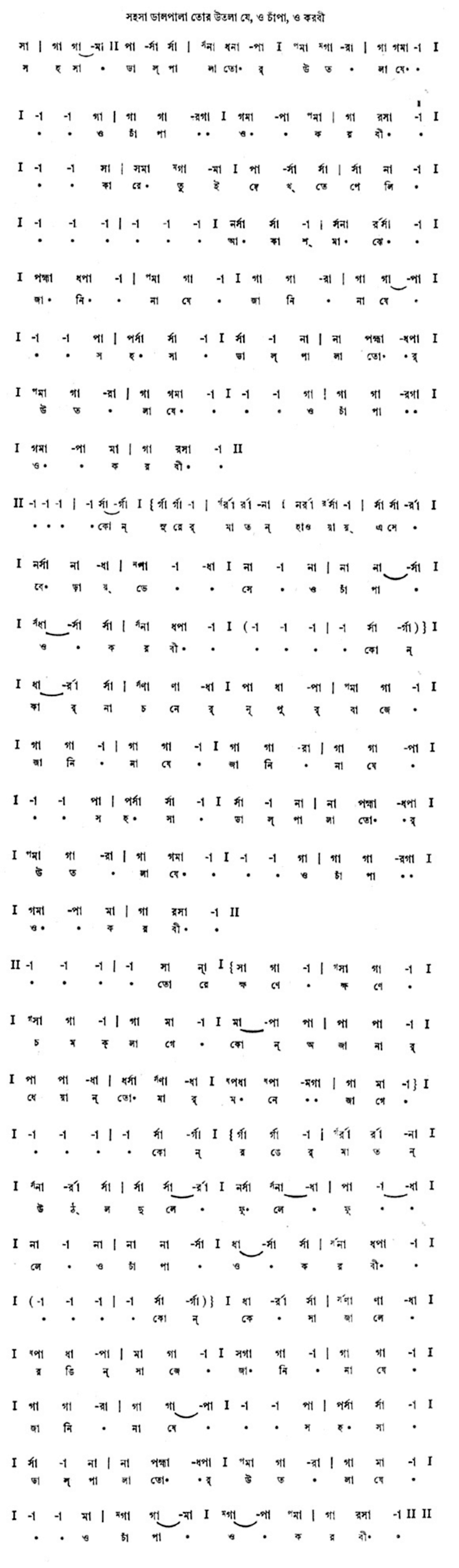 Scanned sample of Bengali Akarmatrik Notation of a song of Rabindranath Tagore, created by Dinendranath Tagore from Swarabitan.